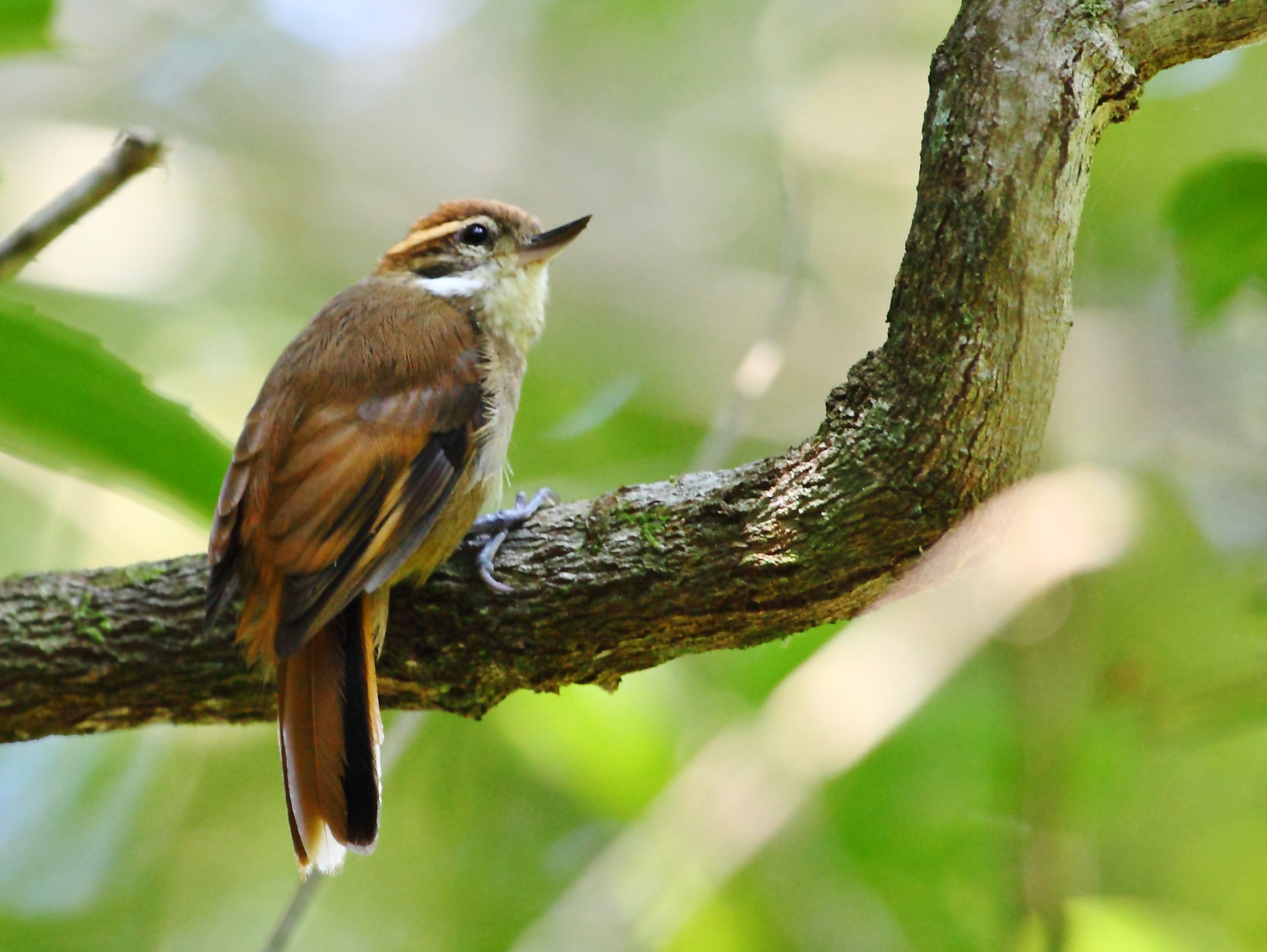 Plain xenops; Restinga de Bertioga State Park, São Paulo, Brazil